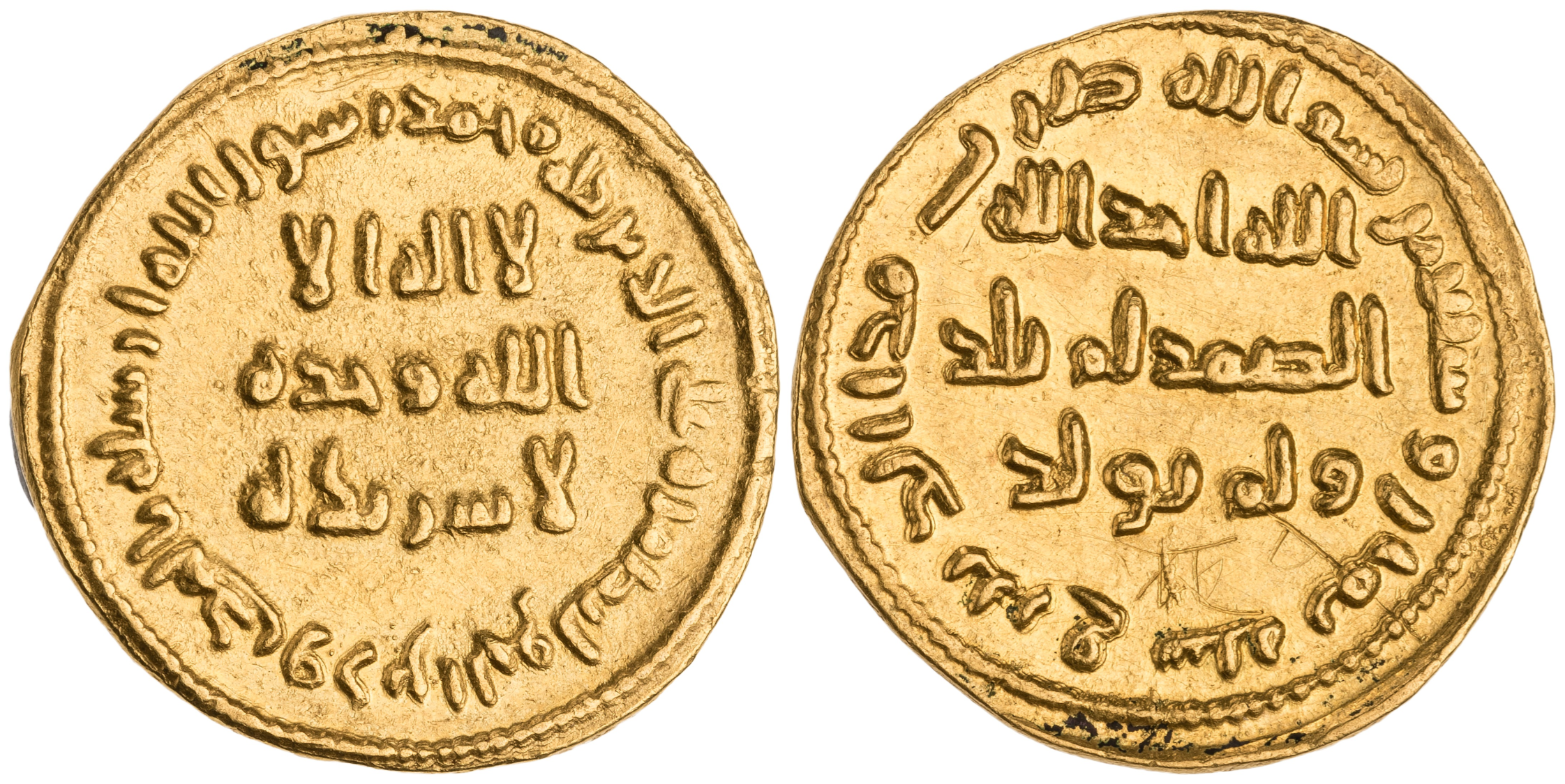 The obverse and reverse of a gold dinar minted in Damascus during the reign of the Umayyad caliph Abd al-Malik ibn Marwan (r. 685-705).